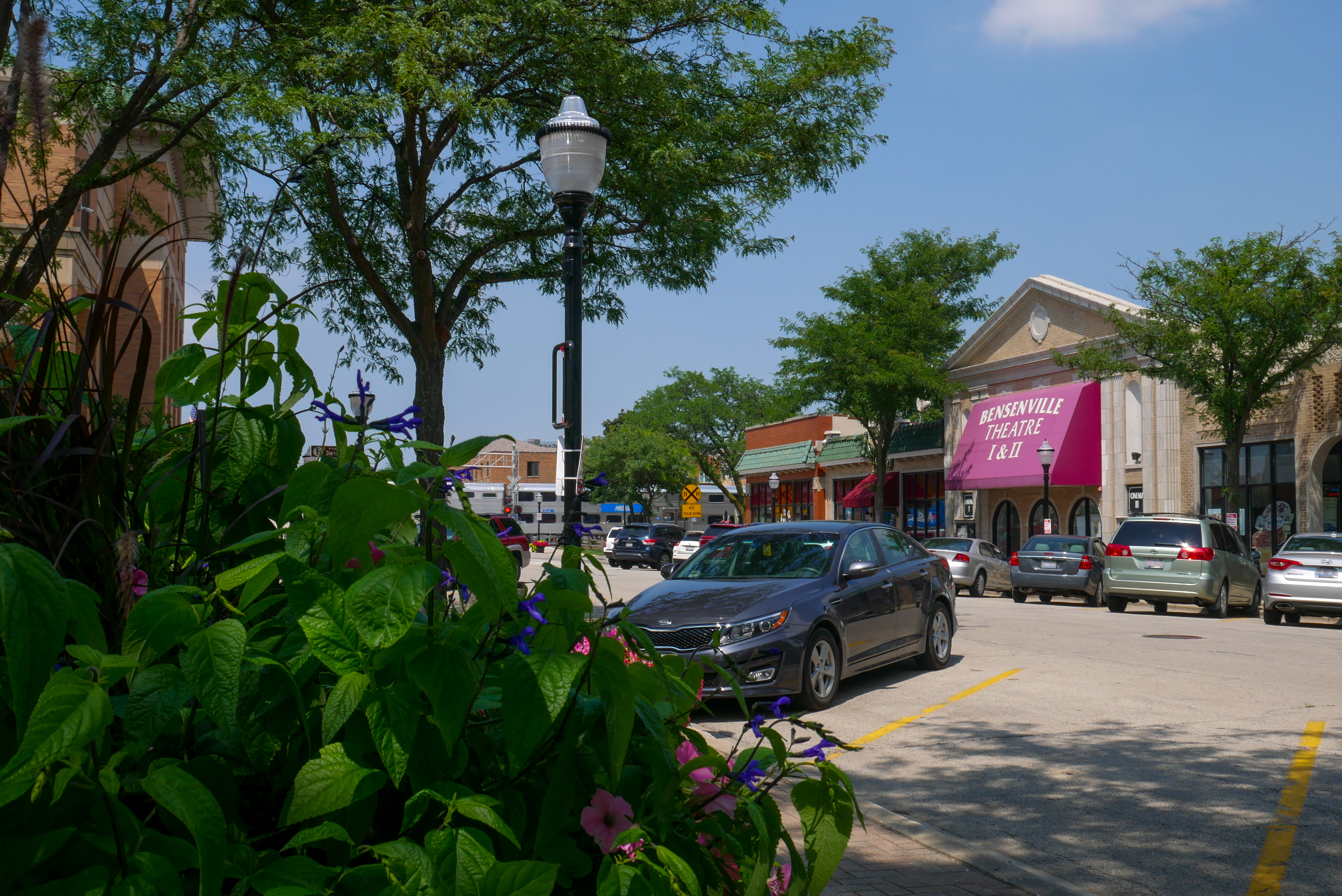 S. Center St. Bensenville, IL - including the Bensenville Theatre, Metra's Milwaukee District / West Line, and Village Hall